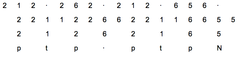 Portion of ladrang form (first 1/4) [bottom] on the phrase making/colotomic instruments with balungan [top] and panerus [middle] elaborations.